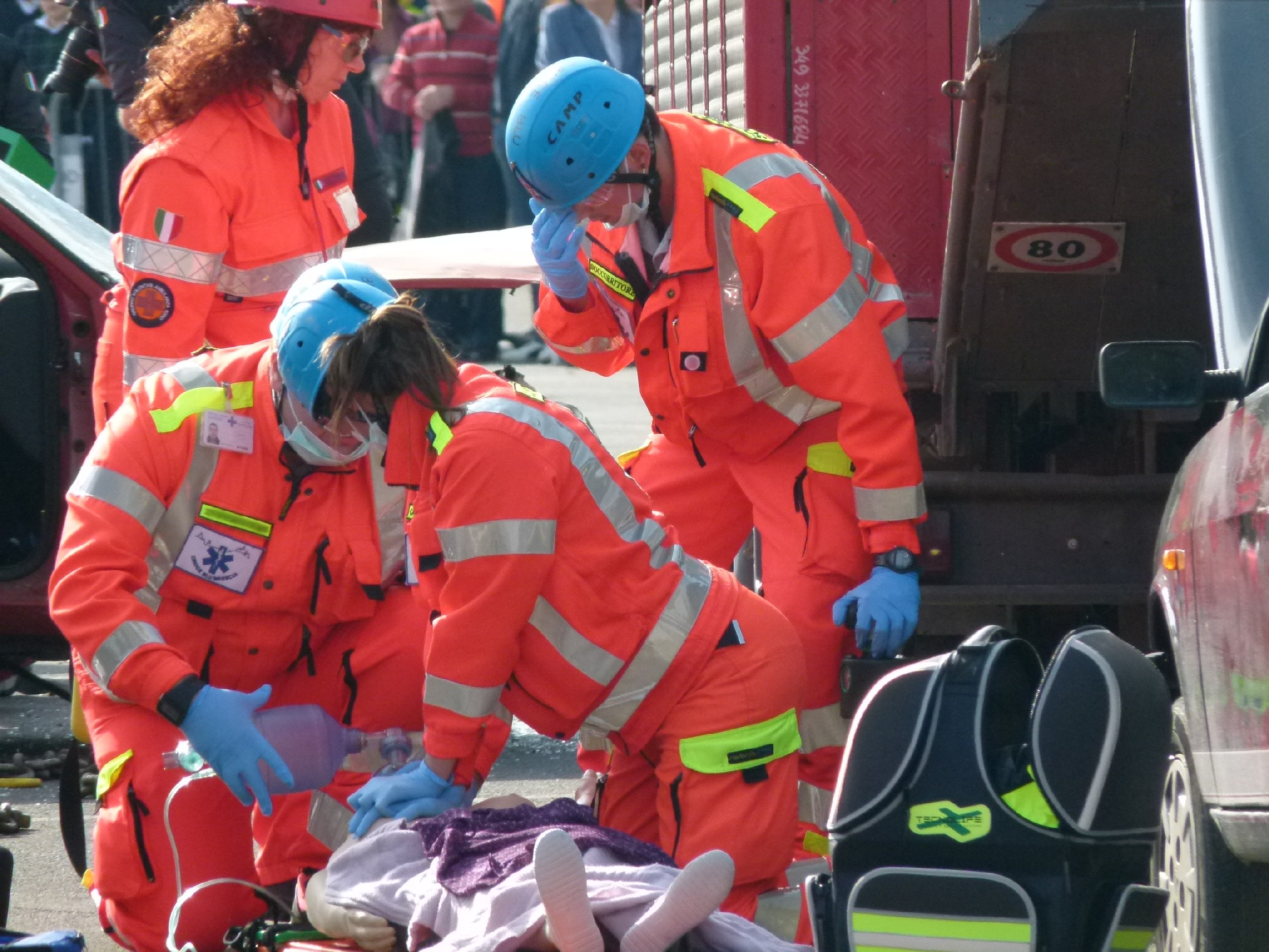 Italian EMTs performing CPR on an mock car-accident victim during an exercise near Brescia.